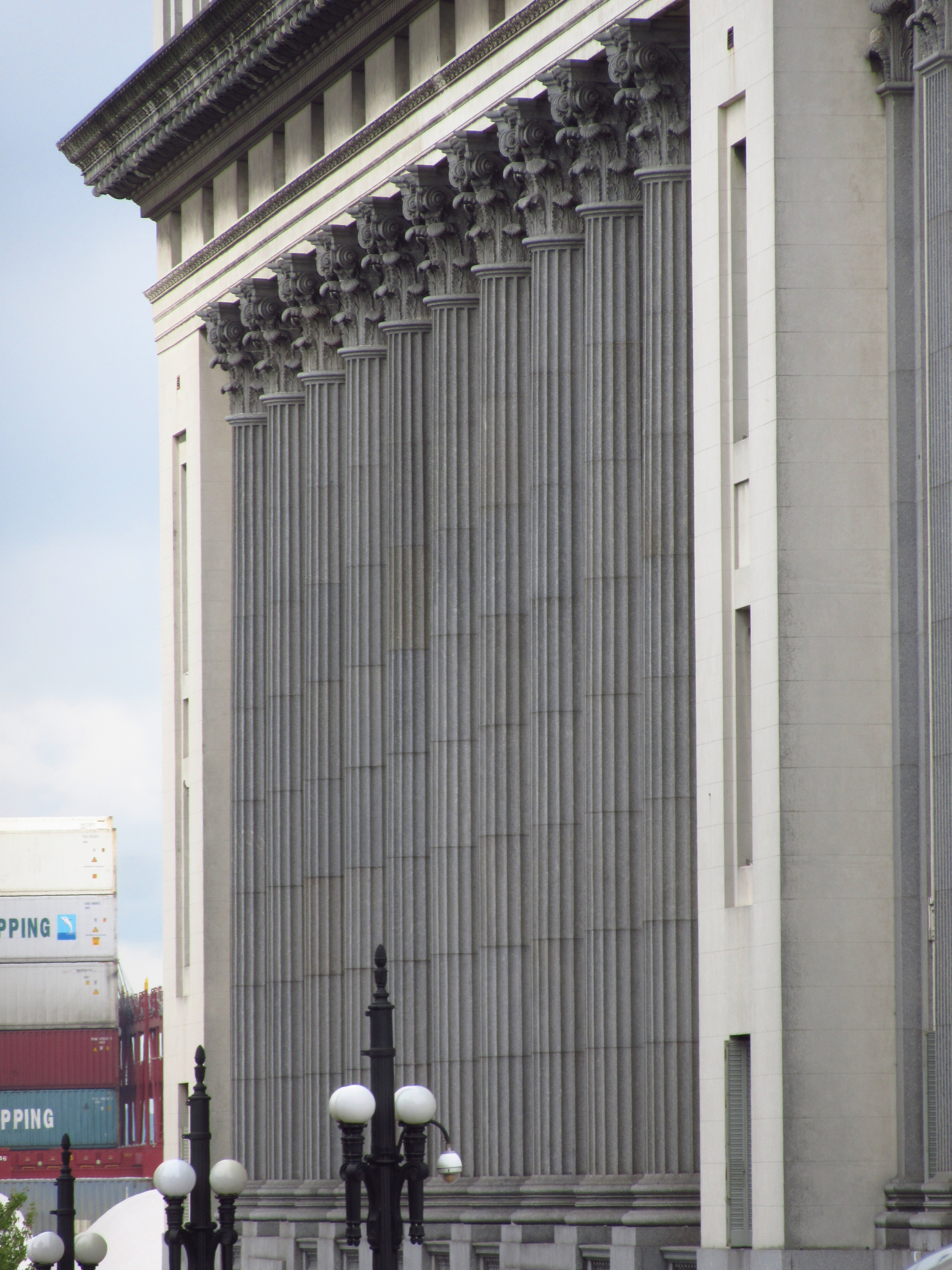 Montevideo